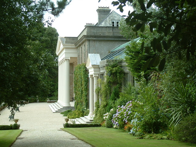 Trelissick Garden, The House. Although not open to the public, the House is an impressive building